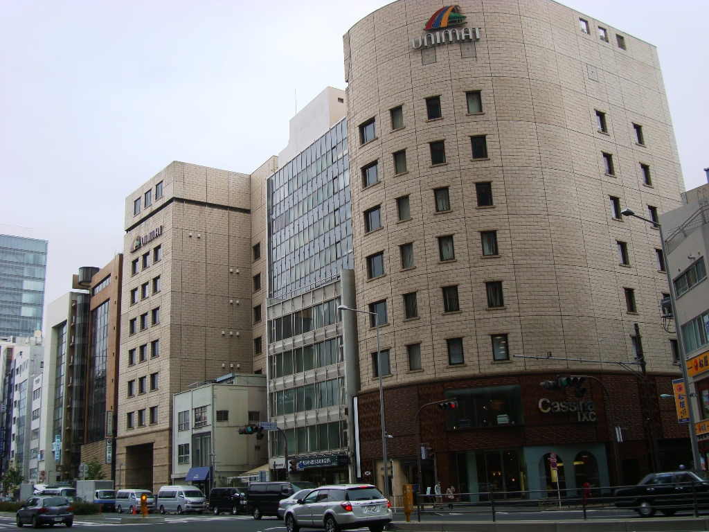 Unimat Headquarters building, Aoyama, Tokyo